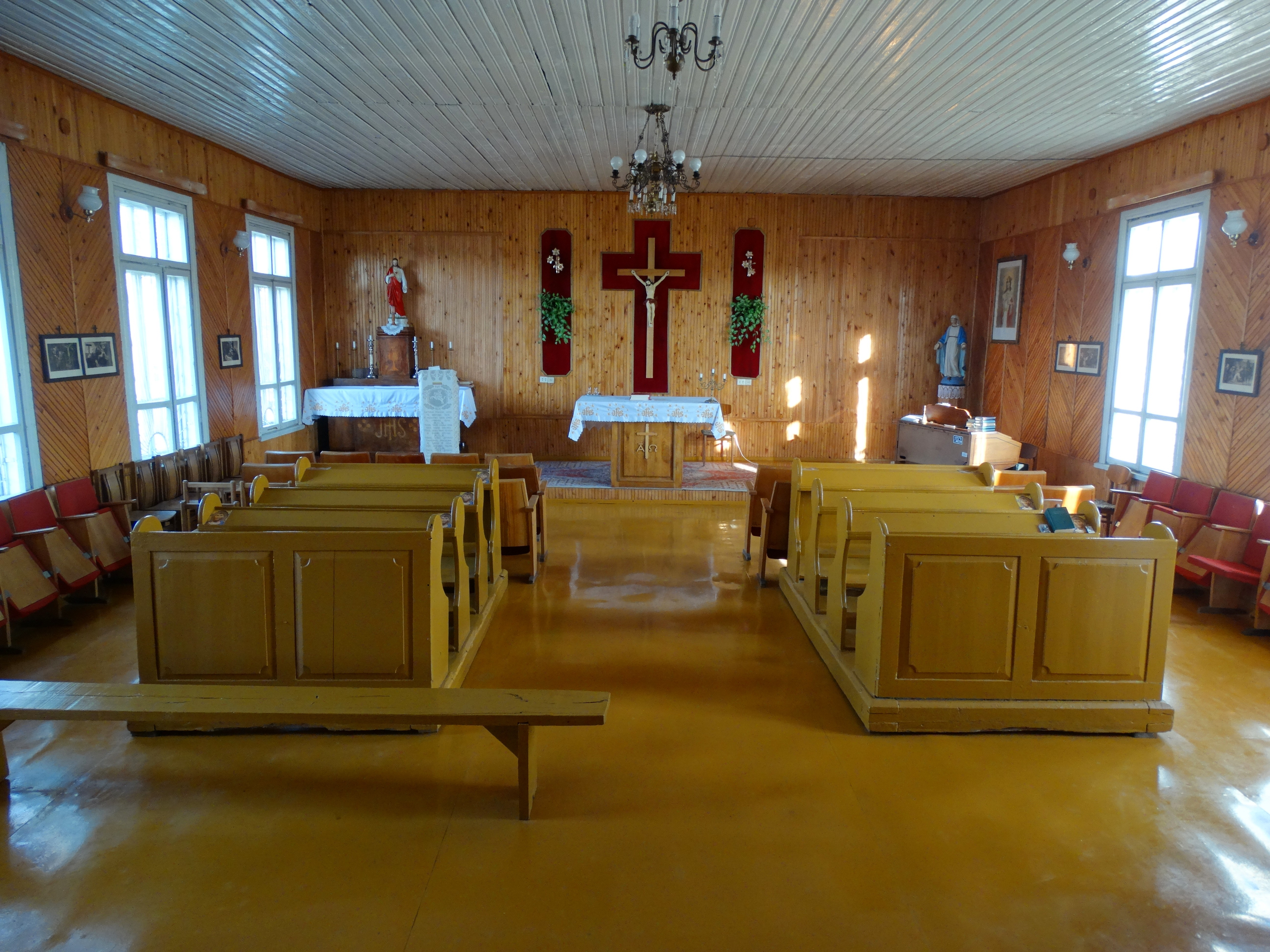 Chapel interior, Venciūnai, Alytus district, Lithuania